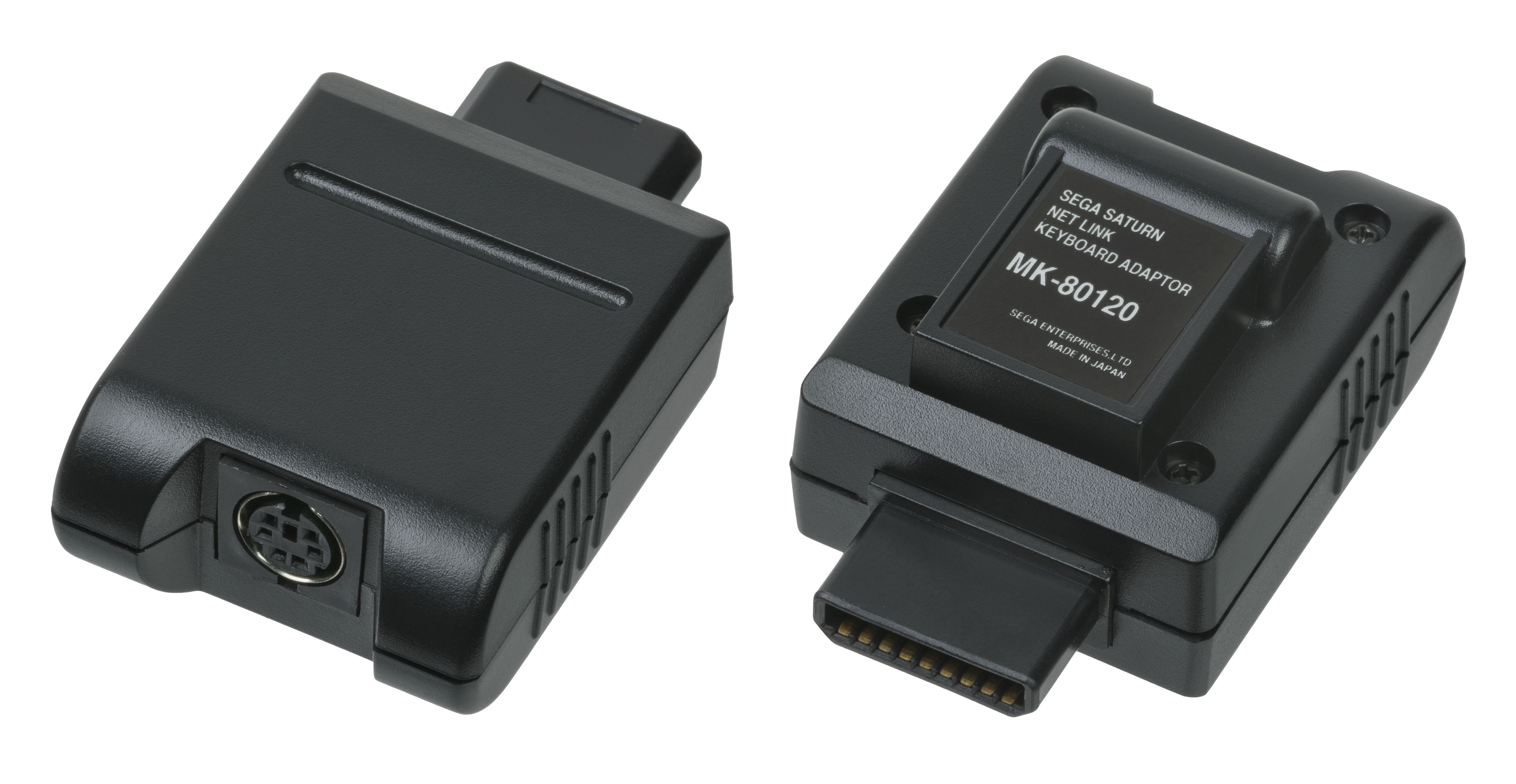 A PS/2 keyboard adapter (MK-80120) for the Sega Saturn video game console. This was required for attaching a PS/2 keyboard to the Saturn so you could browse the internet with its Net Link service.